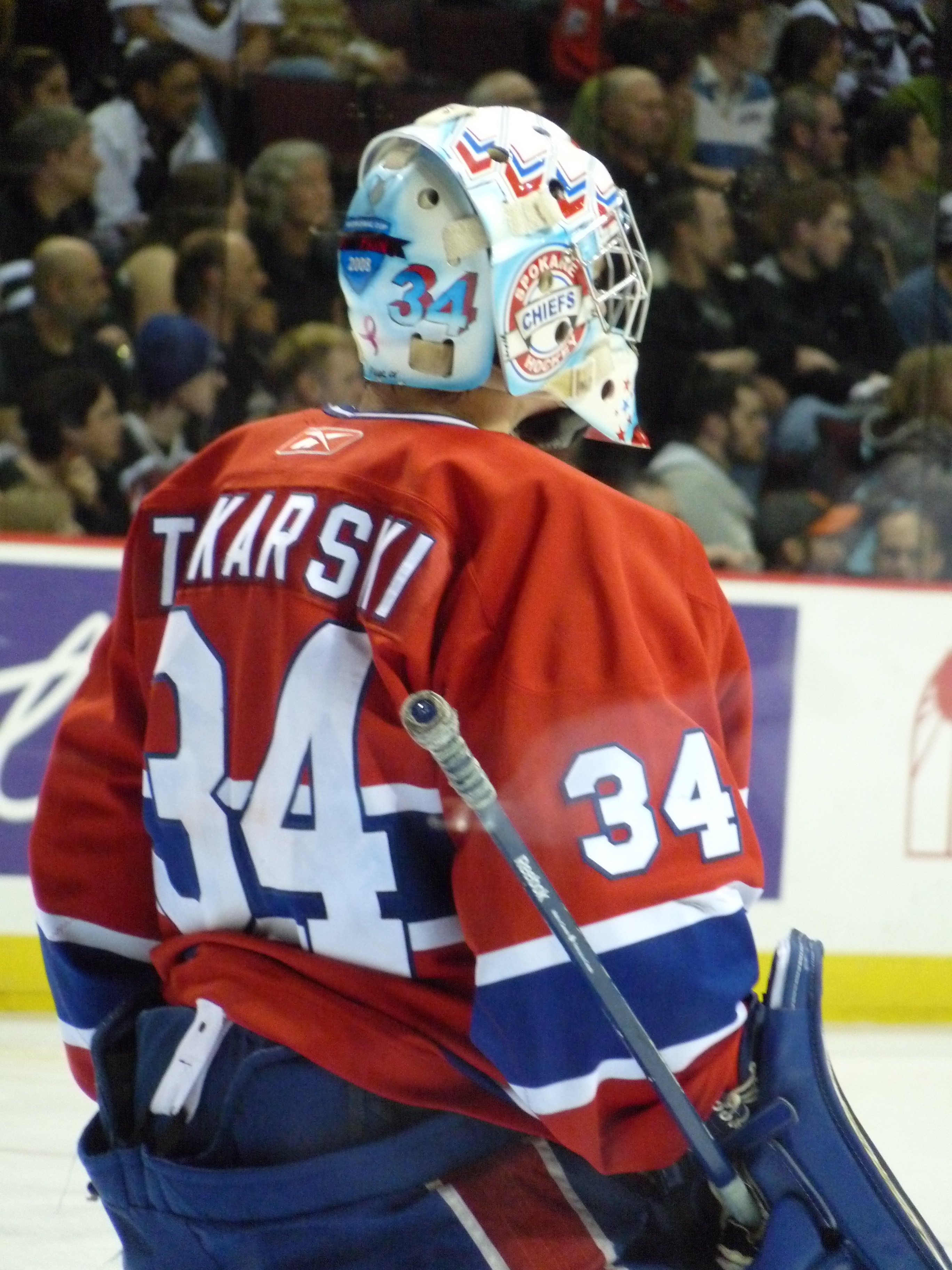 Spokane Chiefs goaltender Dustin Tokarski during Game 7 of the 2009 WHL playoffs against the Vancouver Giants.